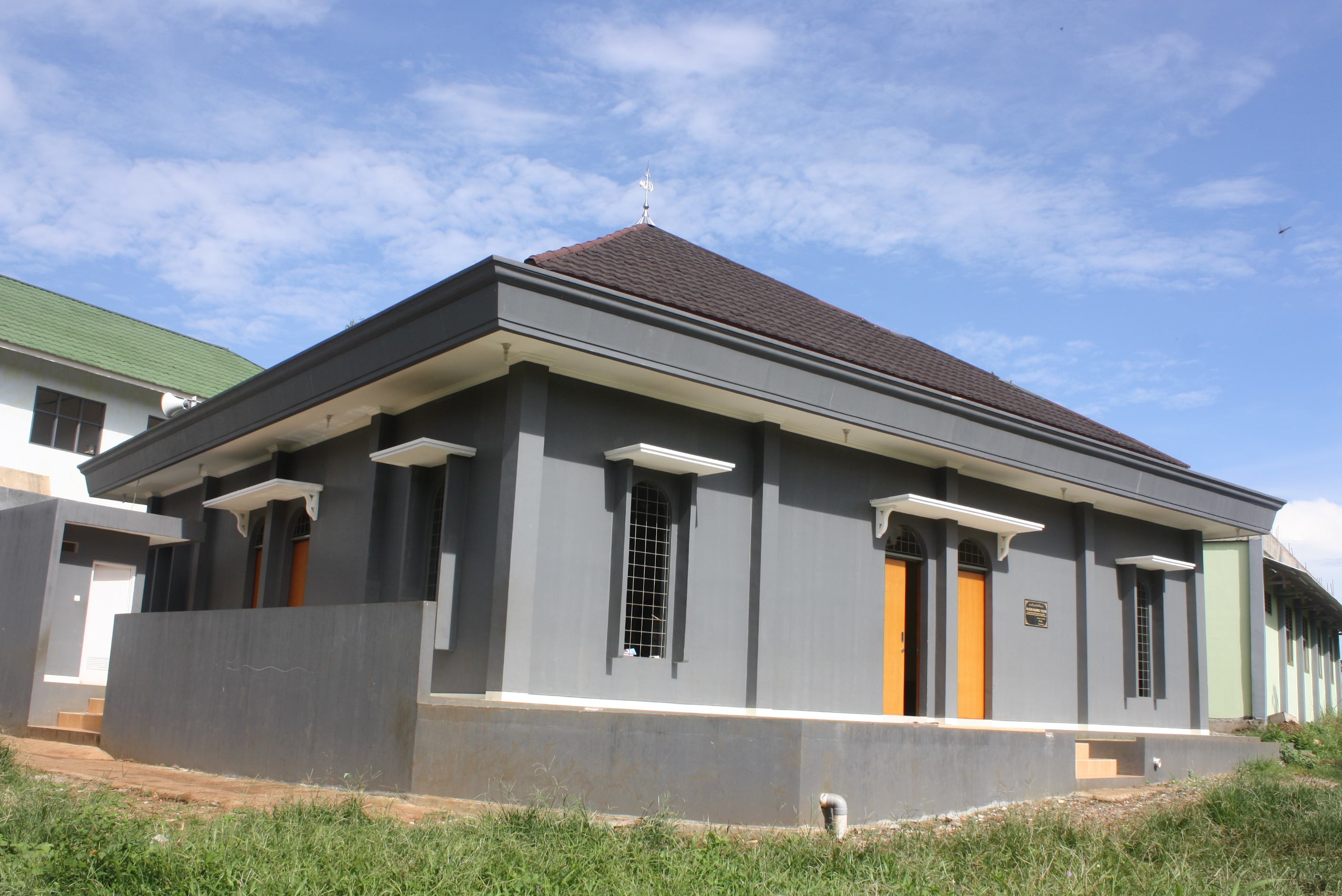 Masjid Bahrul Ulum di Komplek SMP - SMA PLUS Cendikia Cikeas